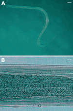 Figure 2 A) Female Thelazia callipaeda isolated from patient 4. The posterior end is on the left and the anterior end is on the right (magnification × 200). Scale bar = 500 μm. B) T. callipaeda mature first-stage larvae in the distal uterus (magnification ×100). Scale bar = 30 μm.